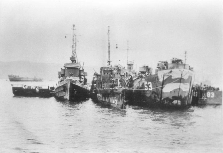 The hulk of the decommissioned USS Barry (APD-29) moored between USS Lipan (ATF-85) and USS LST-53 at Kerama Rhetto, circa late-May early-June 1945. USS LSM-83 is tied up to the opposite side of USS LST-53.